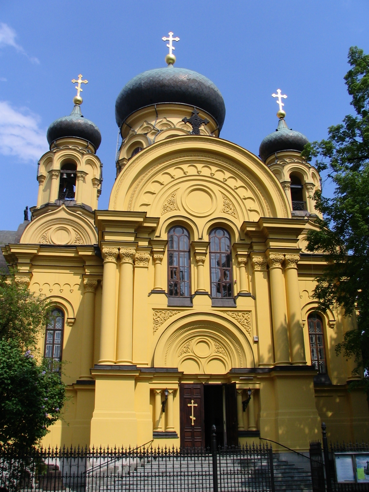 Warsaw - metropolitan orthodox church of St.Mary Magdalene